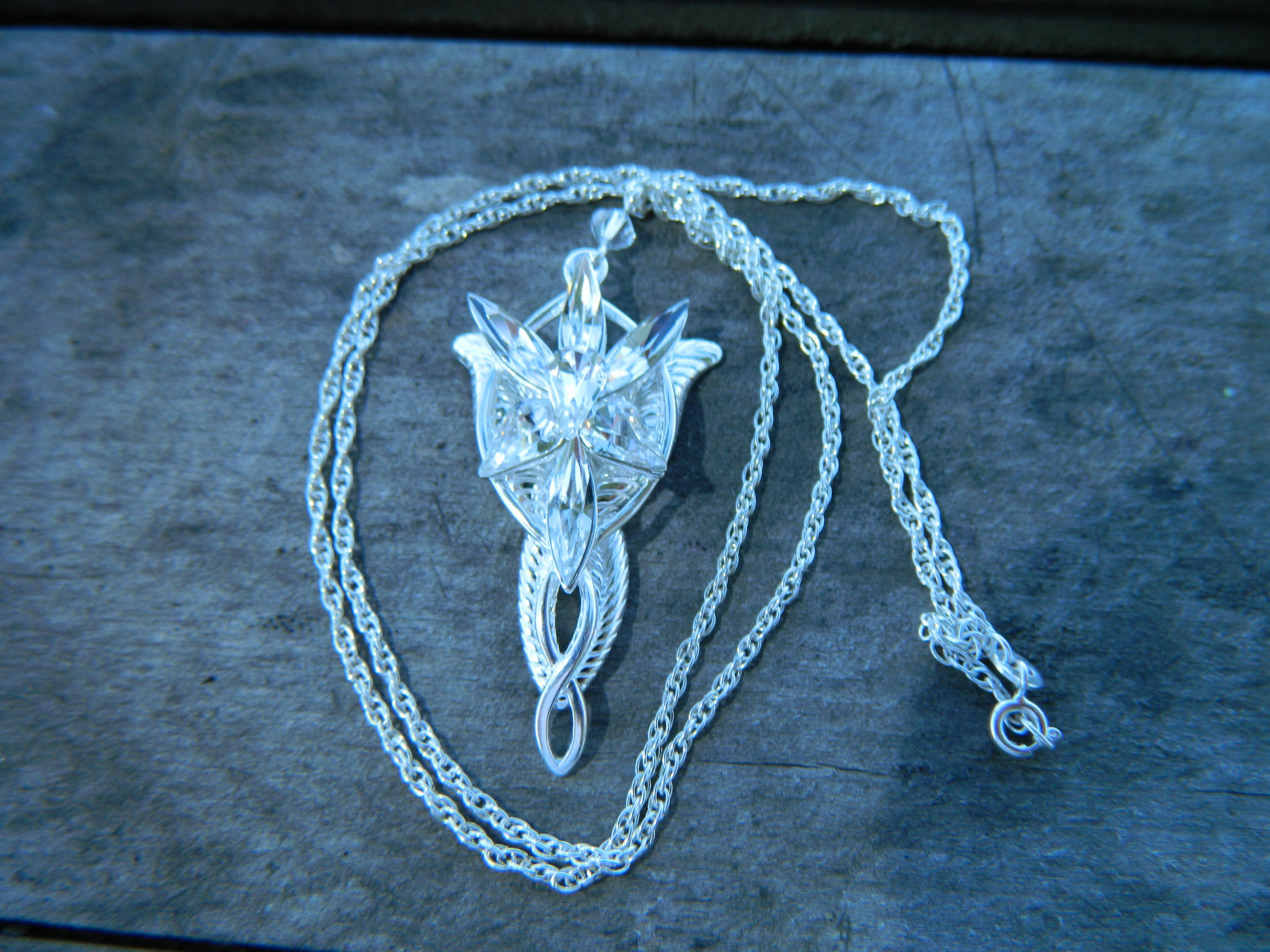 evenstar kolyesinin resmidir.